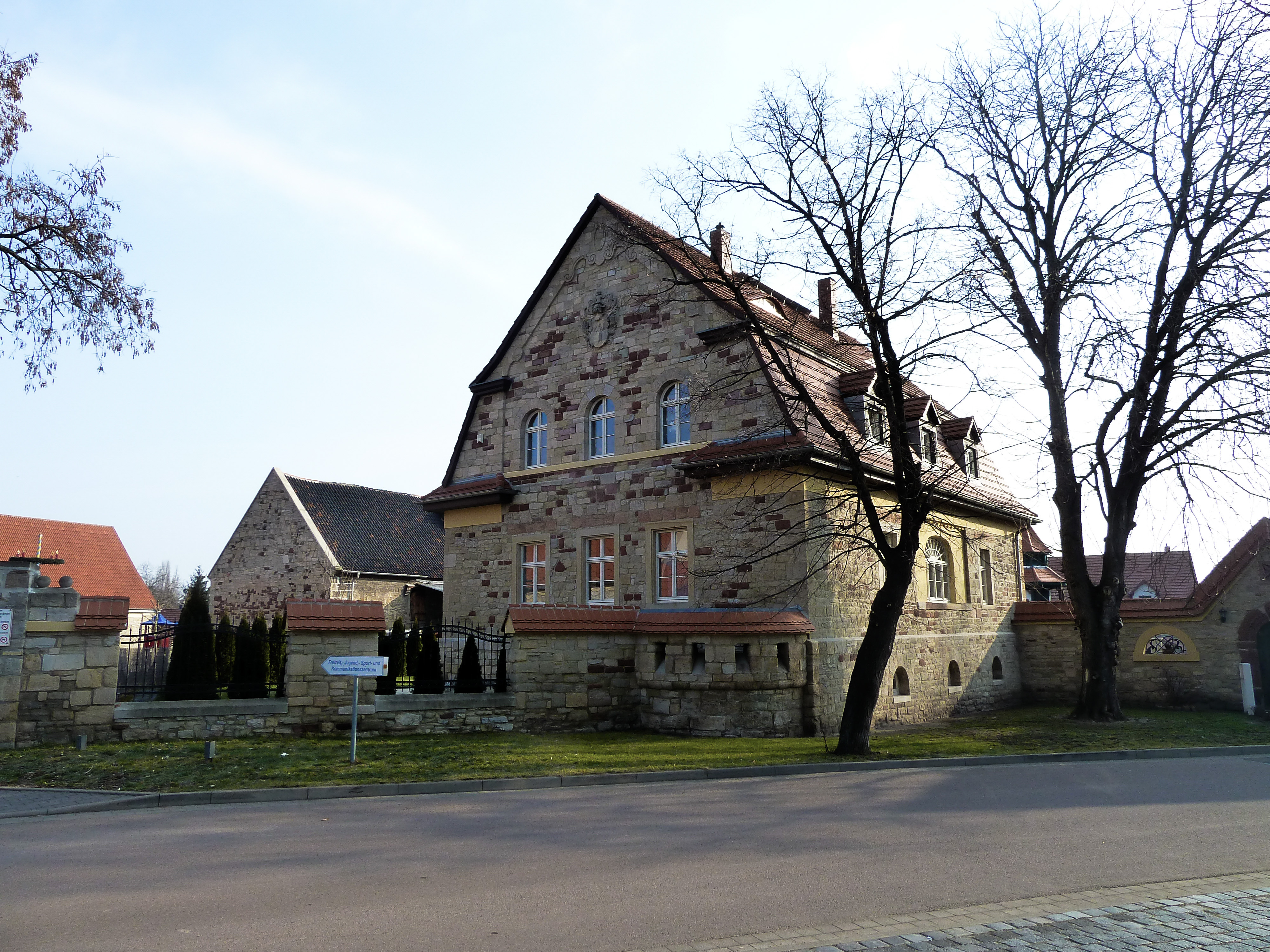 Main building of the manor of Oberröblingen am See.